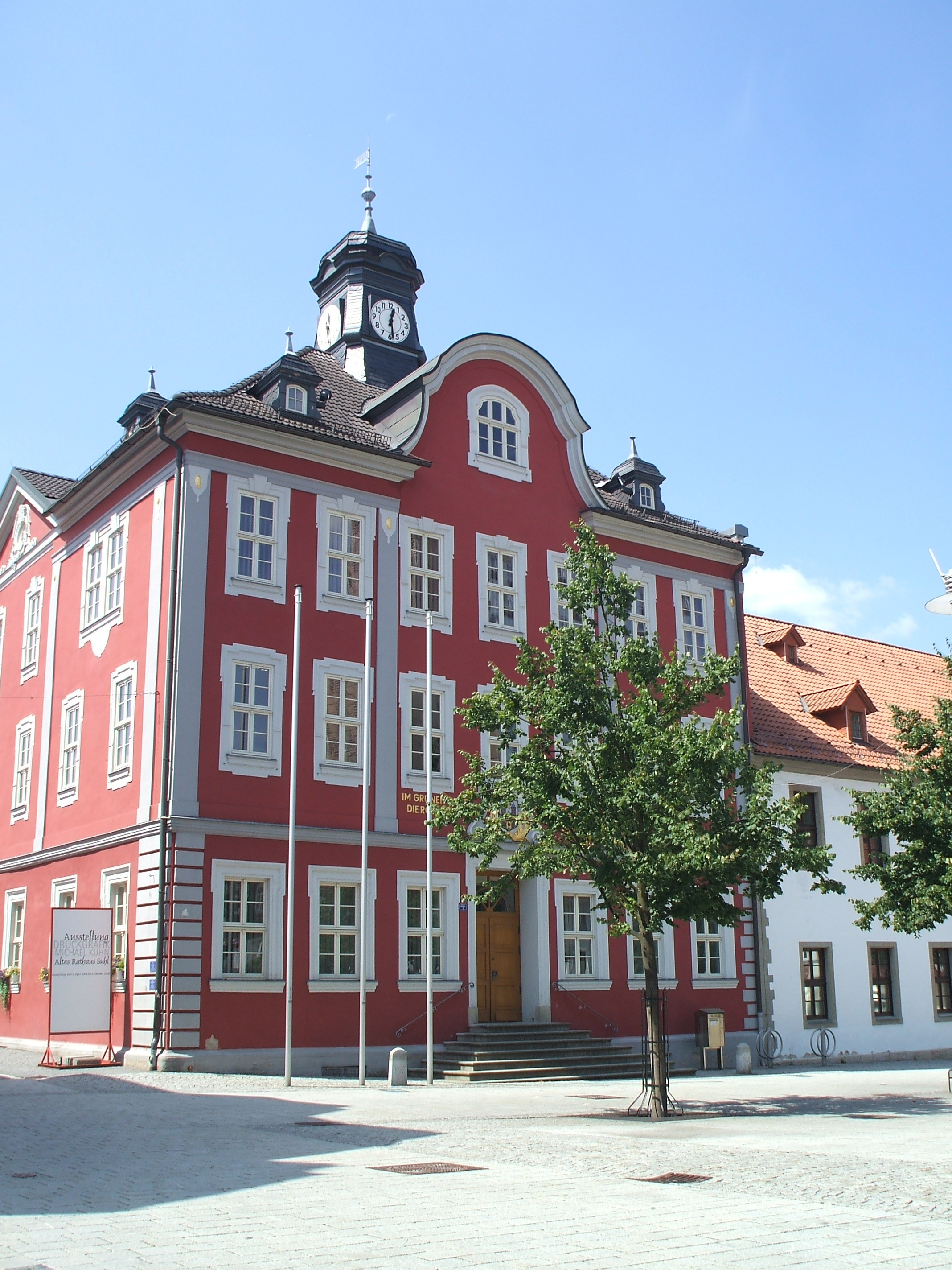 City hall of Suhl, Germany